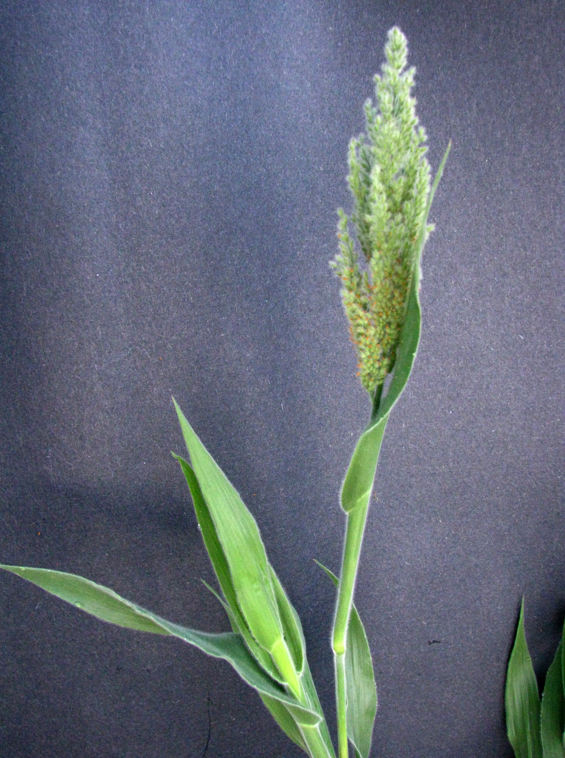 Kākonakona Poaceae (Gramineae) Endemic to the Hawaiian Islands Oʻahu (Cultivated)